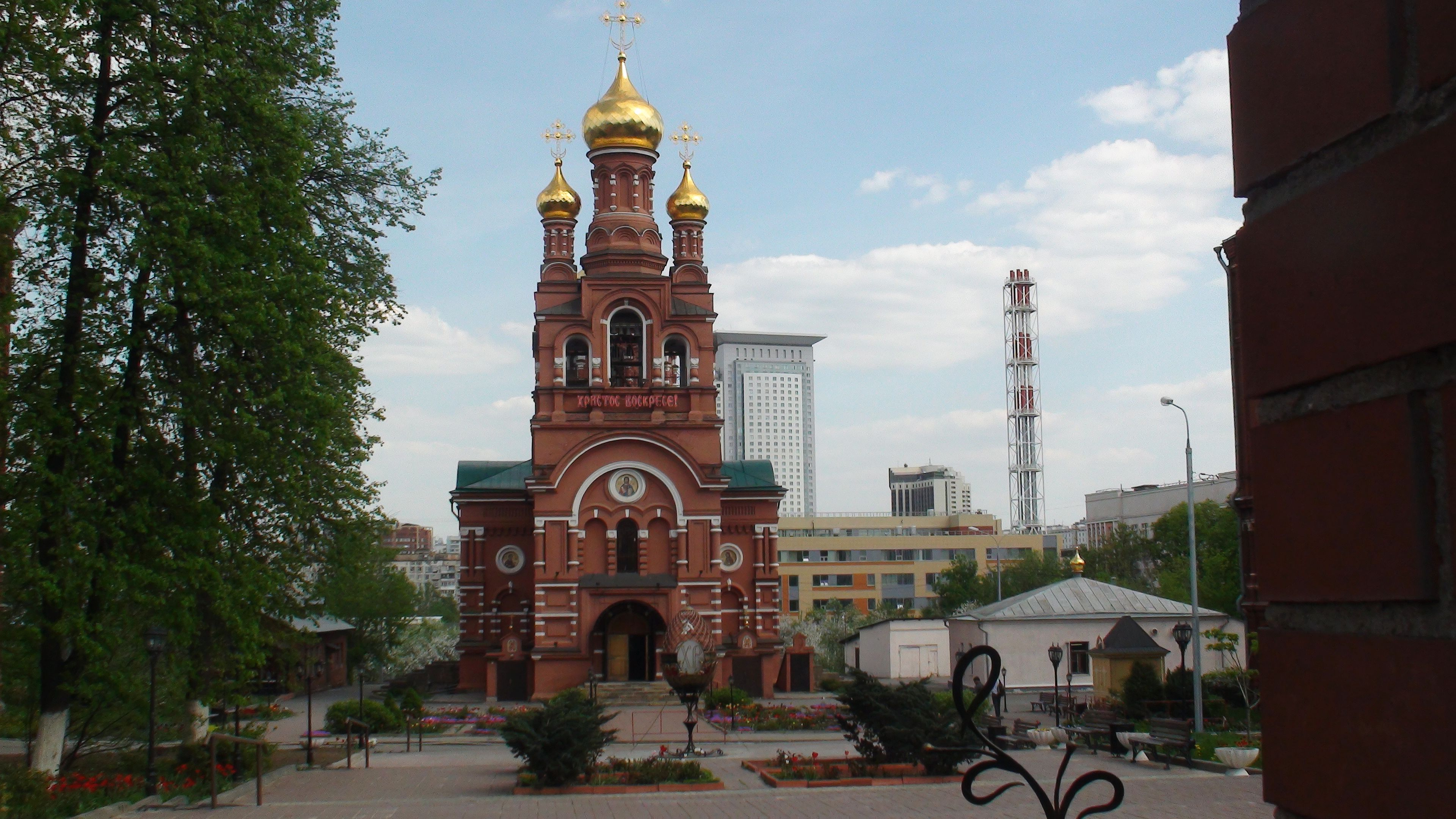 Алексеевский монастырь на улице Гаврикова Москва